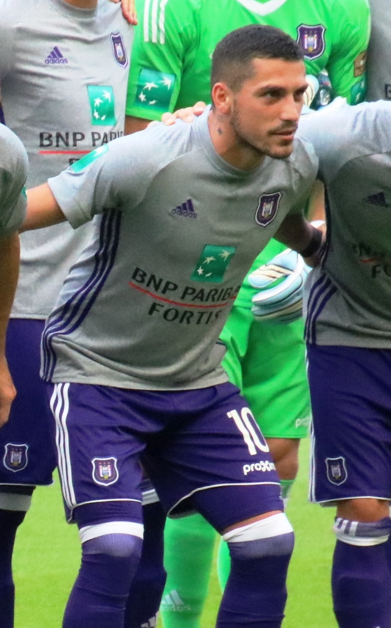 pre season match